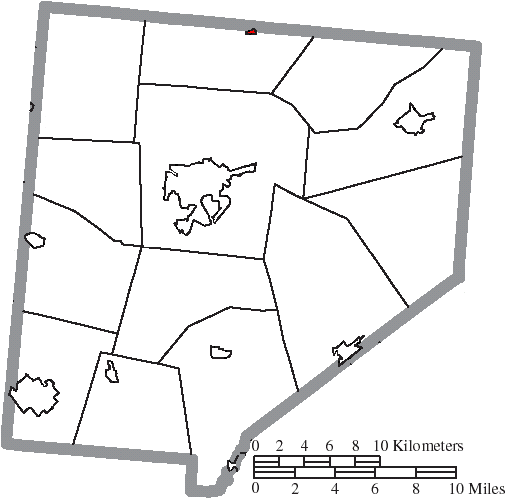 Map of the municipal and township boundaries of Clinton County, Ohio, United States, as of the 2000 census, with the location of the village of Port William highlighted. Township borders are shown only in unincorporated areas in order to differentiate incorporated and unincorporated areas more clearly.